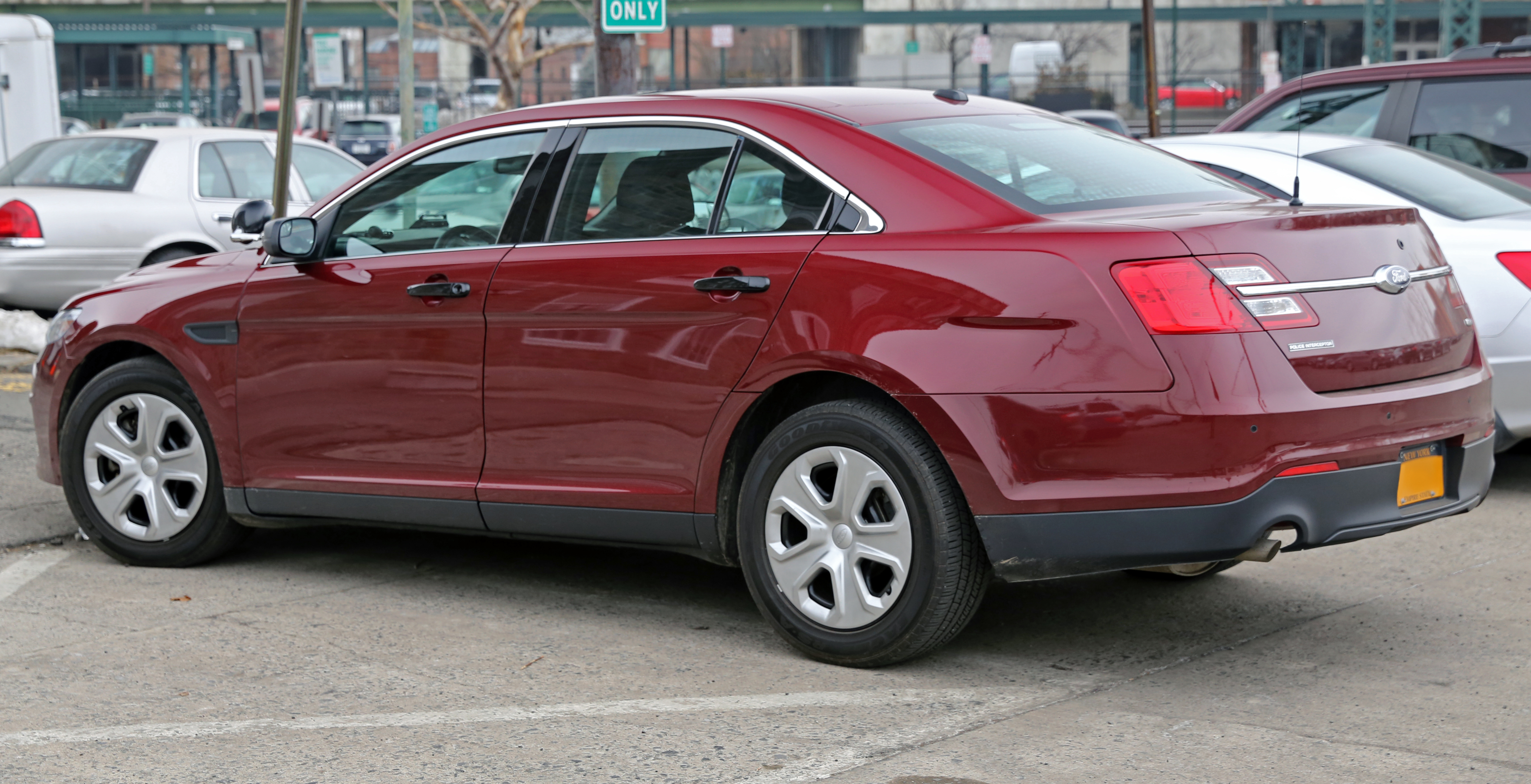 A 2013 Ford Taurus Police Interceptor in plain clothing, presumably belonging to the Police Commissioner in the city of Rye, NY. This model has AWD (as do all of the Police Interceptors) and the lower powered "Cyclone" V6 engine.